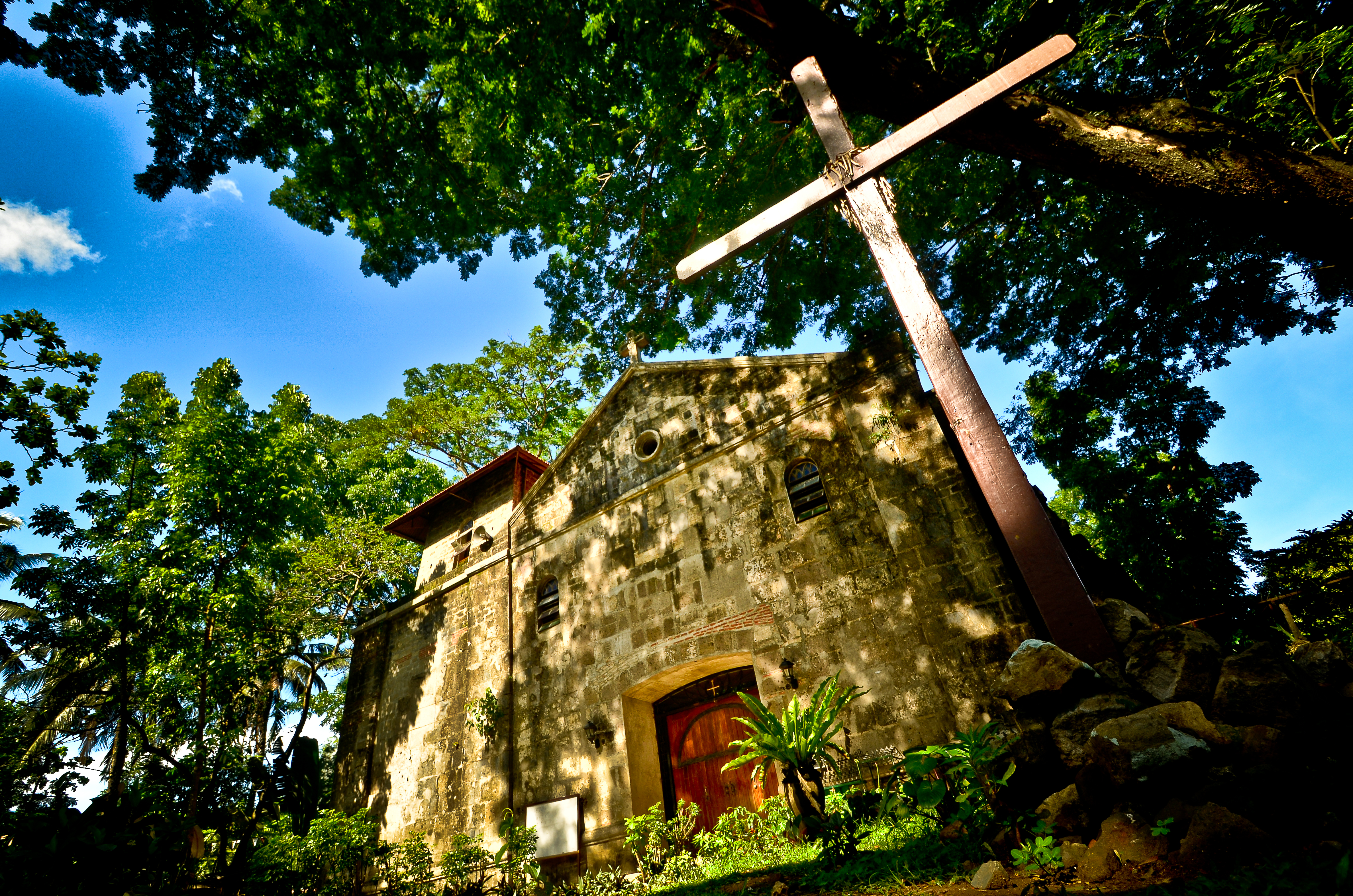 Located in Boso-Boso, Antipolo City